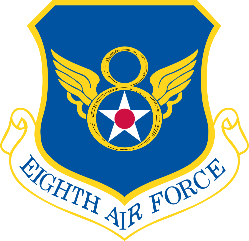 Emblem of the 8th Air Force of the United States Air Force